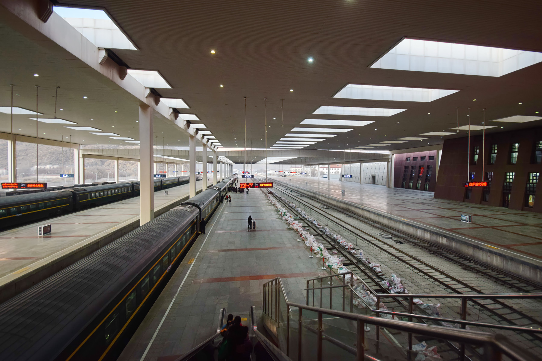 Platforms of Lasa (Lhasa) Railway Station, view towards Lasa (Lhasa) West Railway Station.